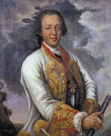 Prince Charles Alexander of Lorraine (1712-1780), son of Duke Leopold I. Joseph of Lorraine and Princess Charlotte Elisabeth of France (daughter of Elisabeth Charlotte, Princess Palatine, and Duke Philipp I. of Orléans), husband of Archduchess Maria Anna of Austria